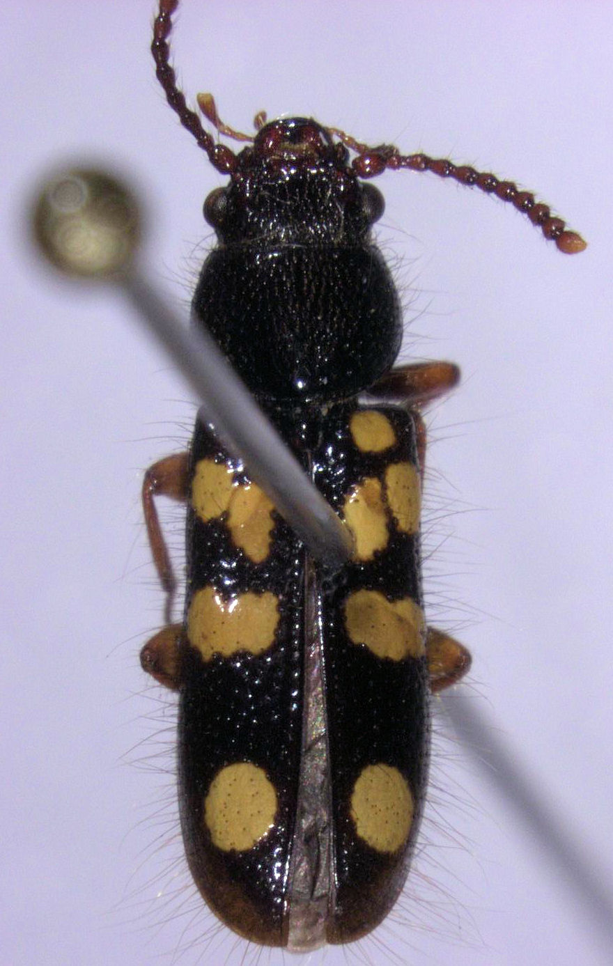 adult Chaetosomodes halli. Front Dismal (71ha), FIT: 14 days (#1293), Forest 0m Canopy (42°37′0″S 172°21′0″E / 42.616667°S 172.35°E). Canterbury Region, New Zealand, RK Didham 28-Jan-01.